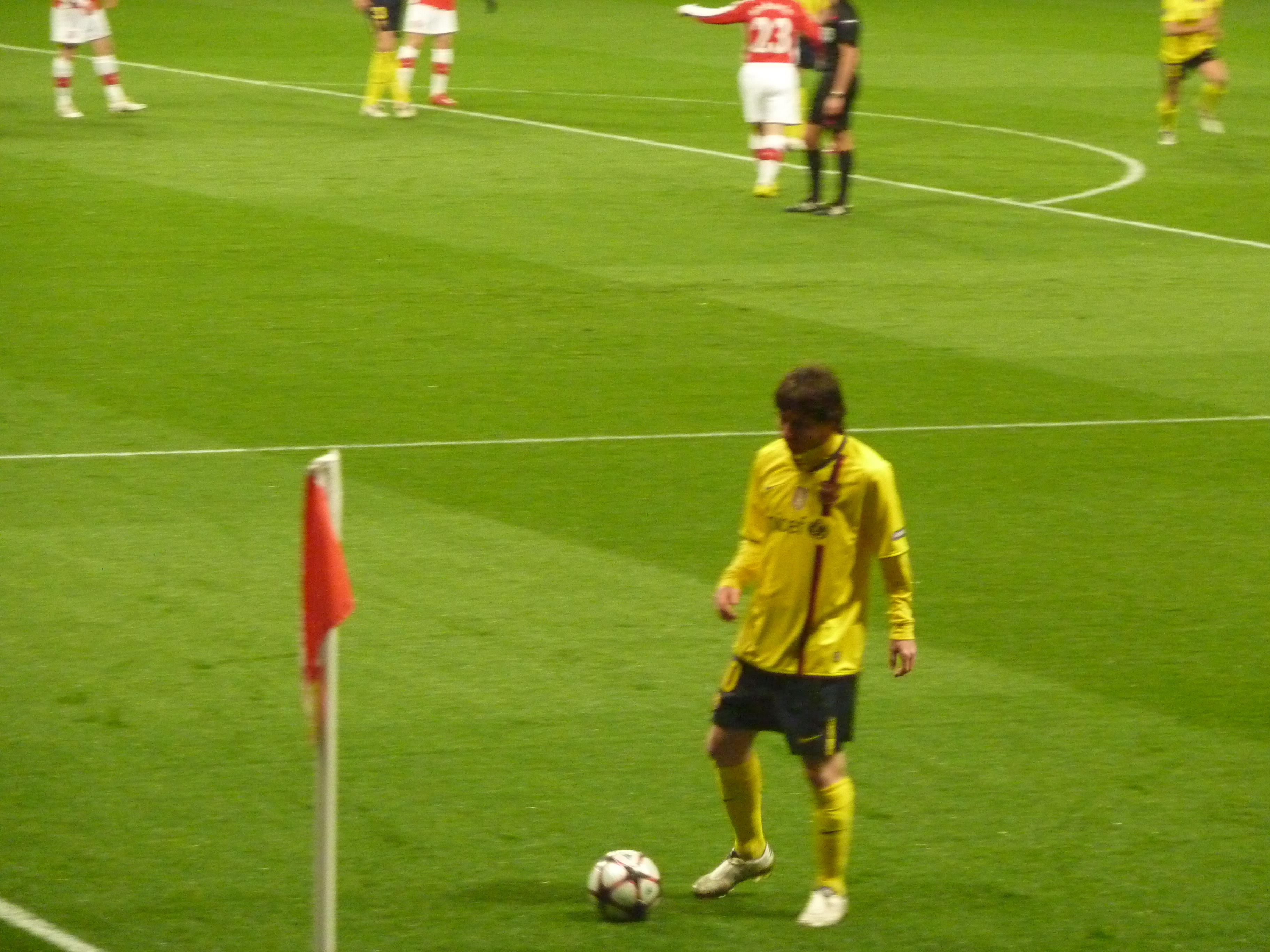 Photography of Lionel Messi at the 2009-10 UEFA Champions League match against Arsenal FC in the march 31st 2010